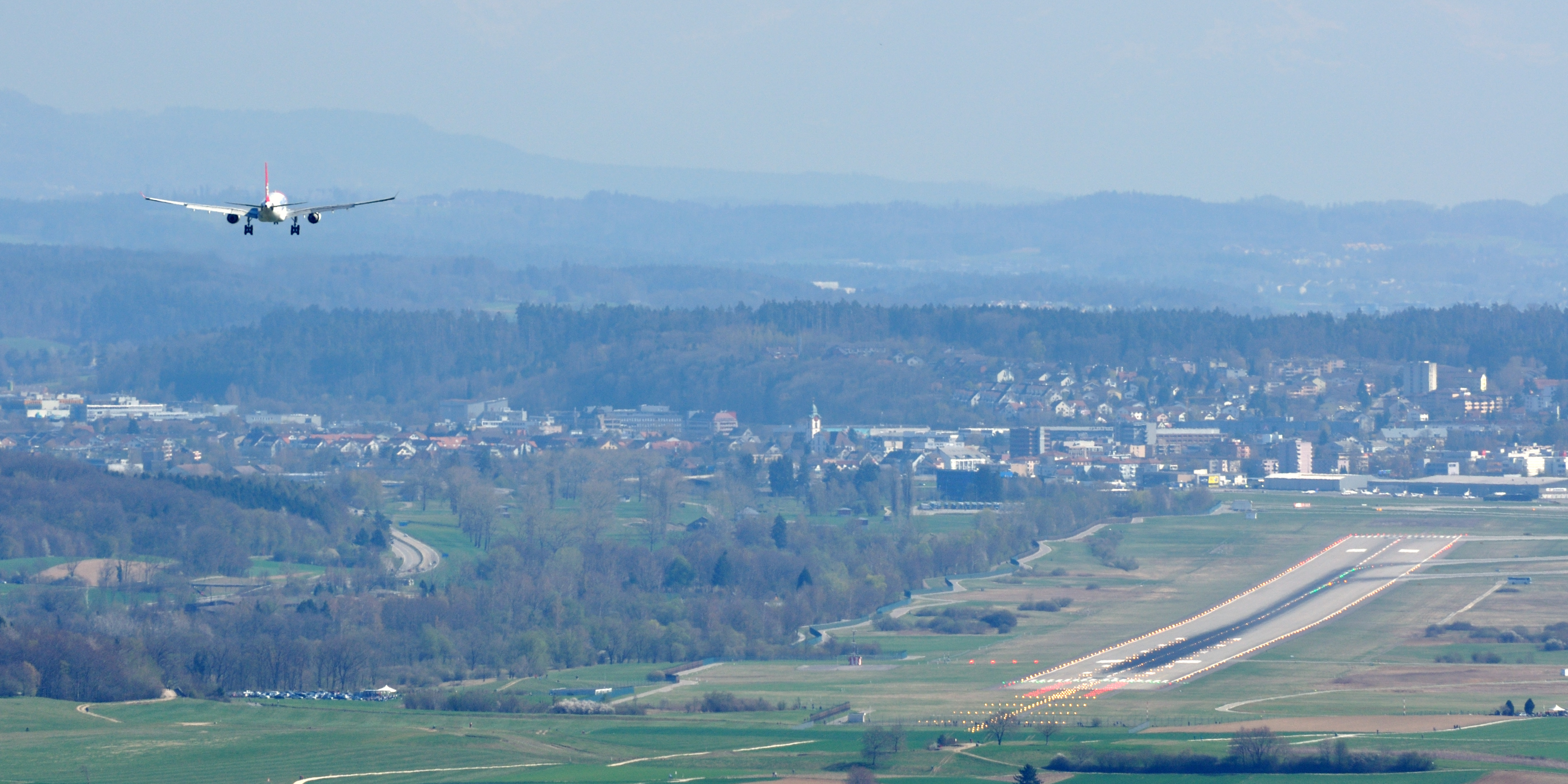 Switzerland, Canton of Zürich, Edelweiss Air Airbus A330-200 HB-IQI approaching runway 14 at Zurich International Airport